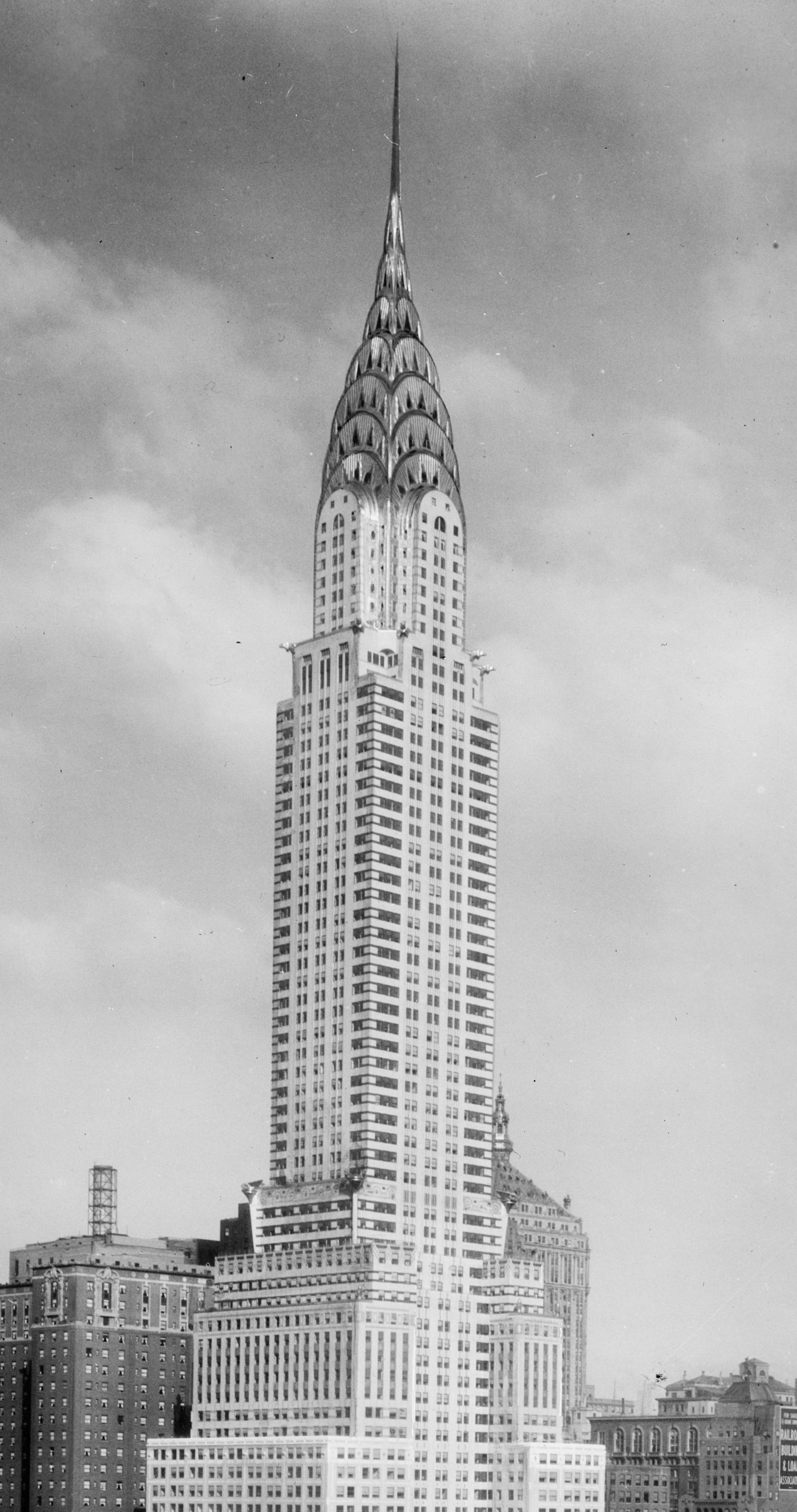 [Chrysler Building, New York, N.Y.]